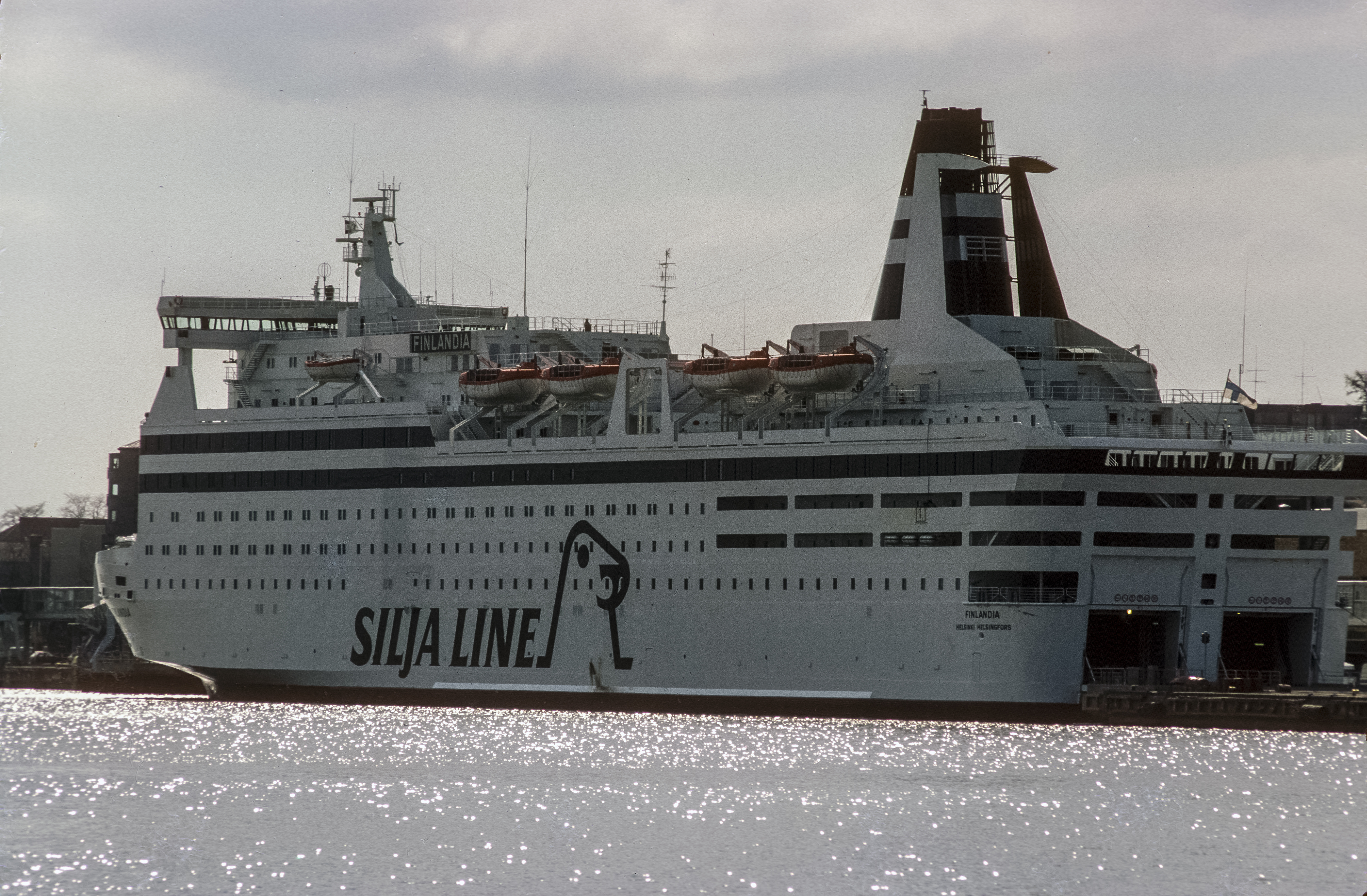 Cruiseferry Finlandia at Helsinki in 1981, two weeks after being placed in service. The original bow profile is visible. Scanned Kodachrome slide.